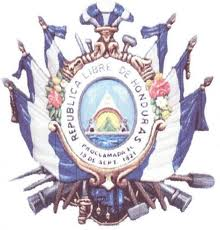 Hondurain Army Force Shield